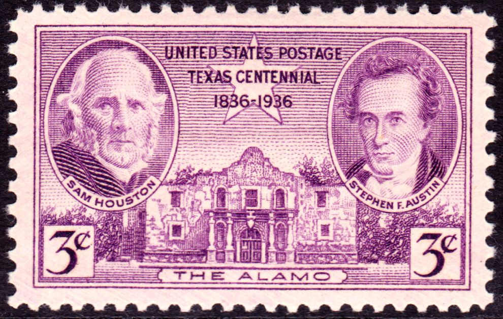 The_Alamo_1936_Issue-3c.jpg